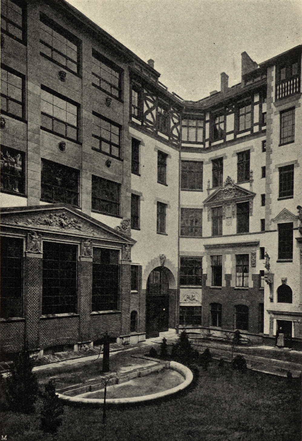 Berlin - yard of the atelier- and dwelling-house "Zum Bieber", Durlacher Strasse No. 6 (later No. 14, since 1932 No. 15a). Architect Wilhelm Walther. Built in 1893/1894. In the first half of the 20th century there were living and working the writer Elisabeth Siewert and the painter Clara Siewert as well as the artists Ernst Ludwig Kirchner, Max Pechstein, Gerhard Marcks and Richard Scheibe in the 1910th.